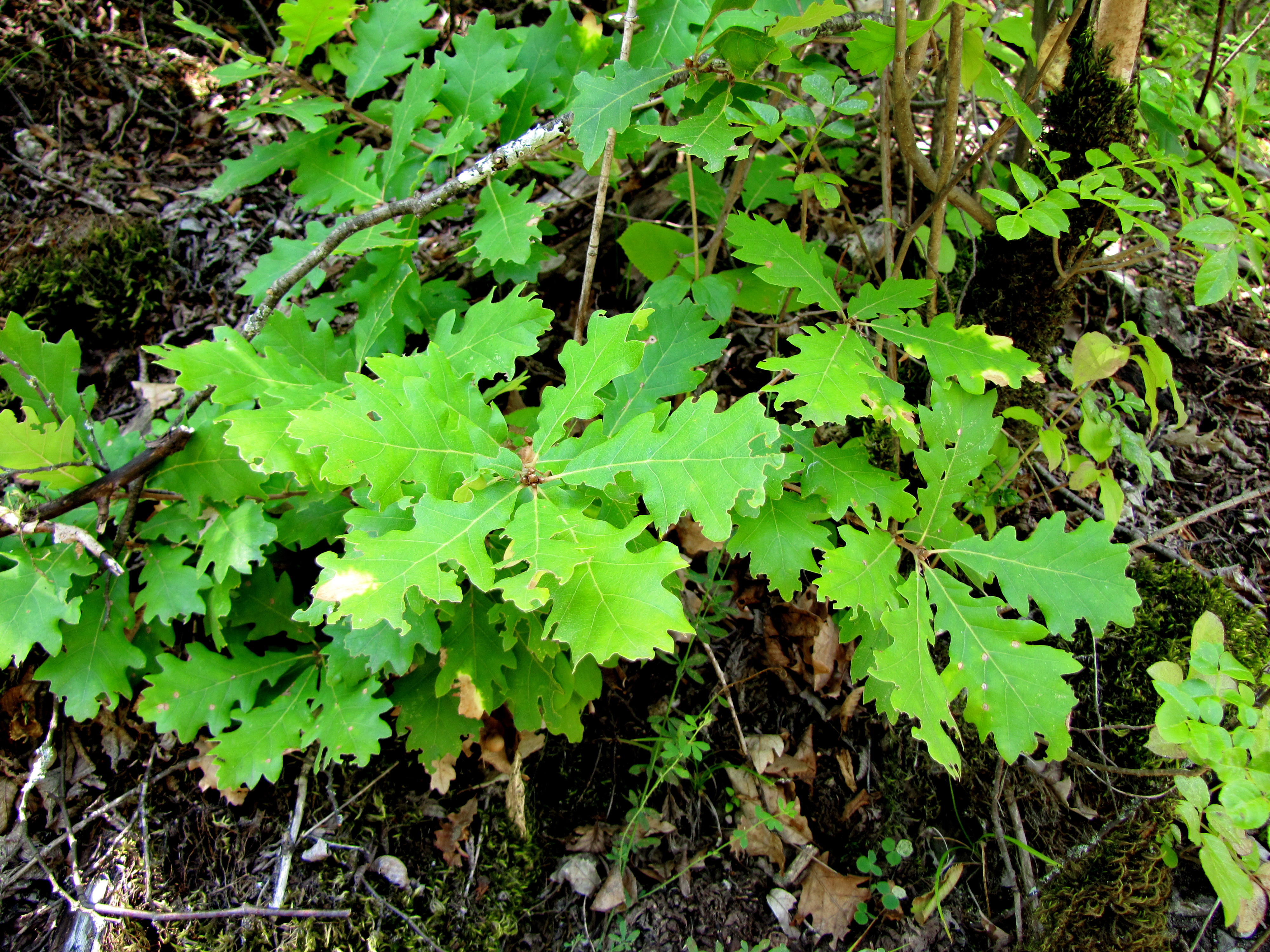 Young Hungarian oak (Quercus frainetto) growing near Novi Pazar, SW Serbia.